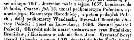 Kasper Niesiecki, Herbarz Polski, Vol. 8, Lipsk 1841, p. 323